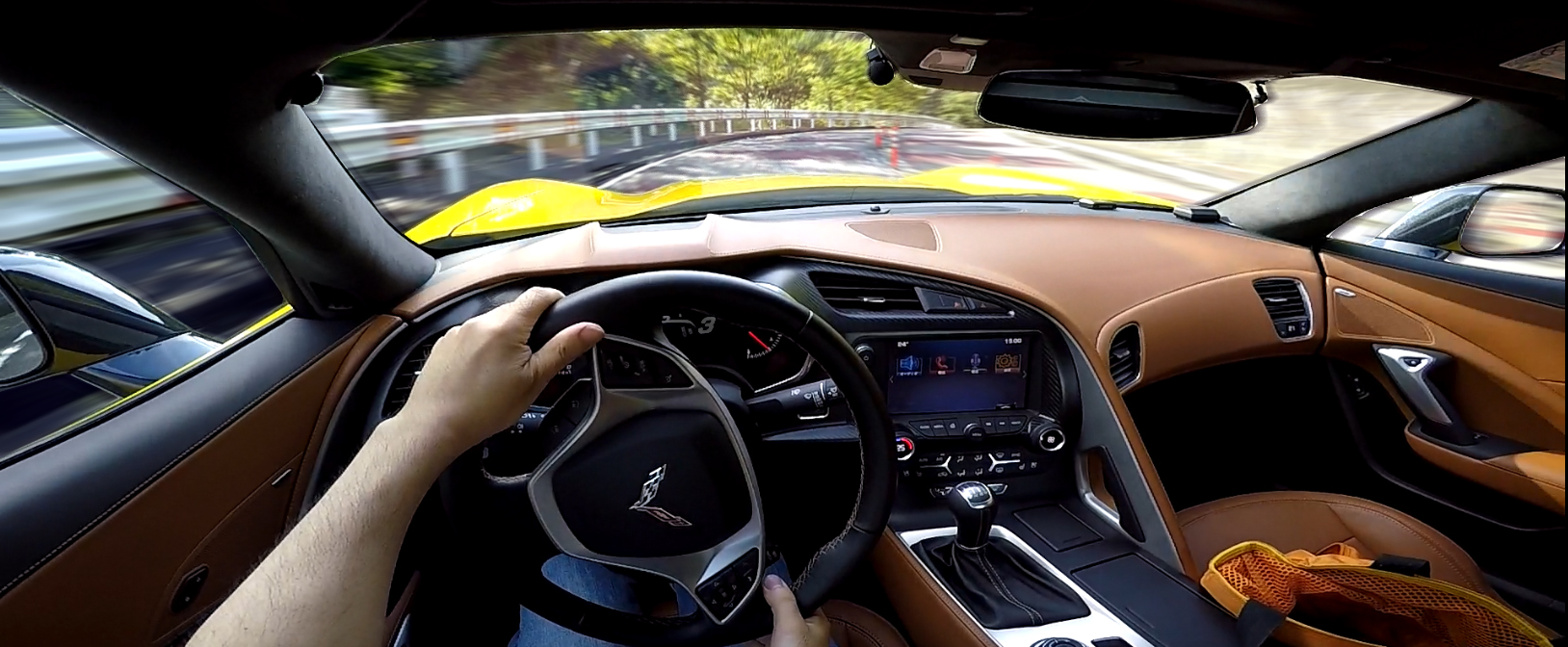 C7 Corvette Stingray interior